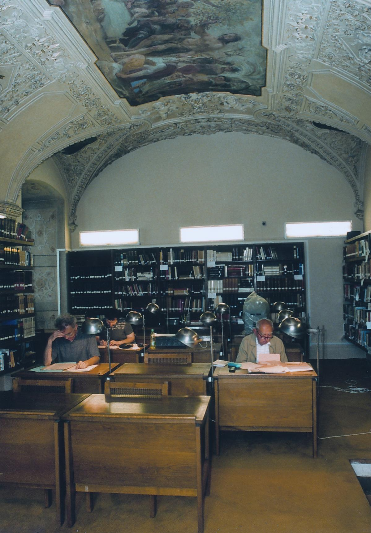 Studovna knihovny PNP